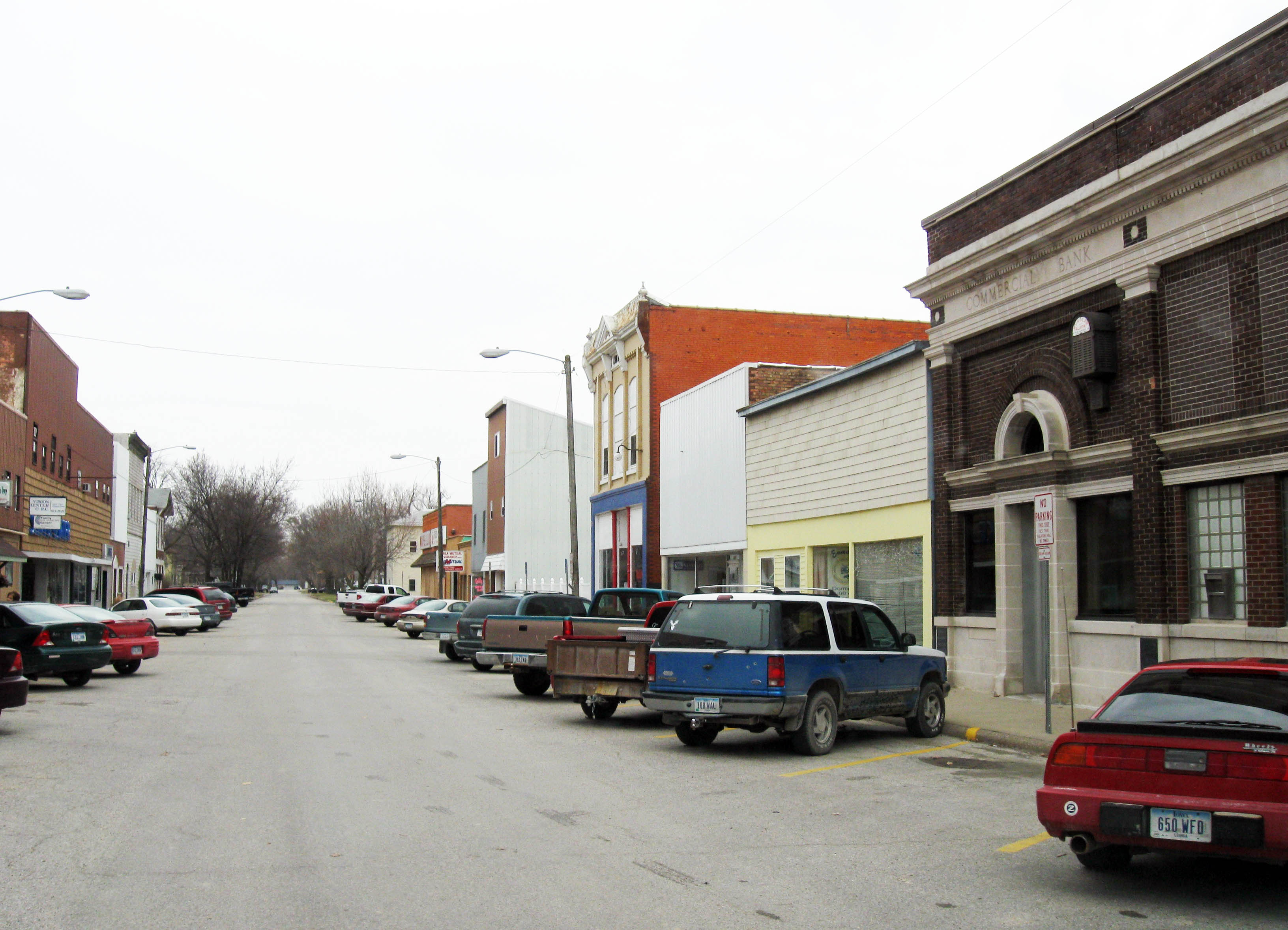 Wapello, Iowa. Bill Whittaker (talk) 14:46, 24 March 2009 (UTC)